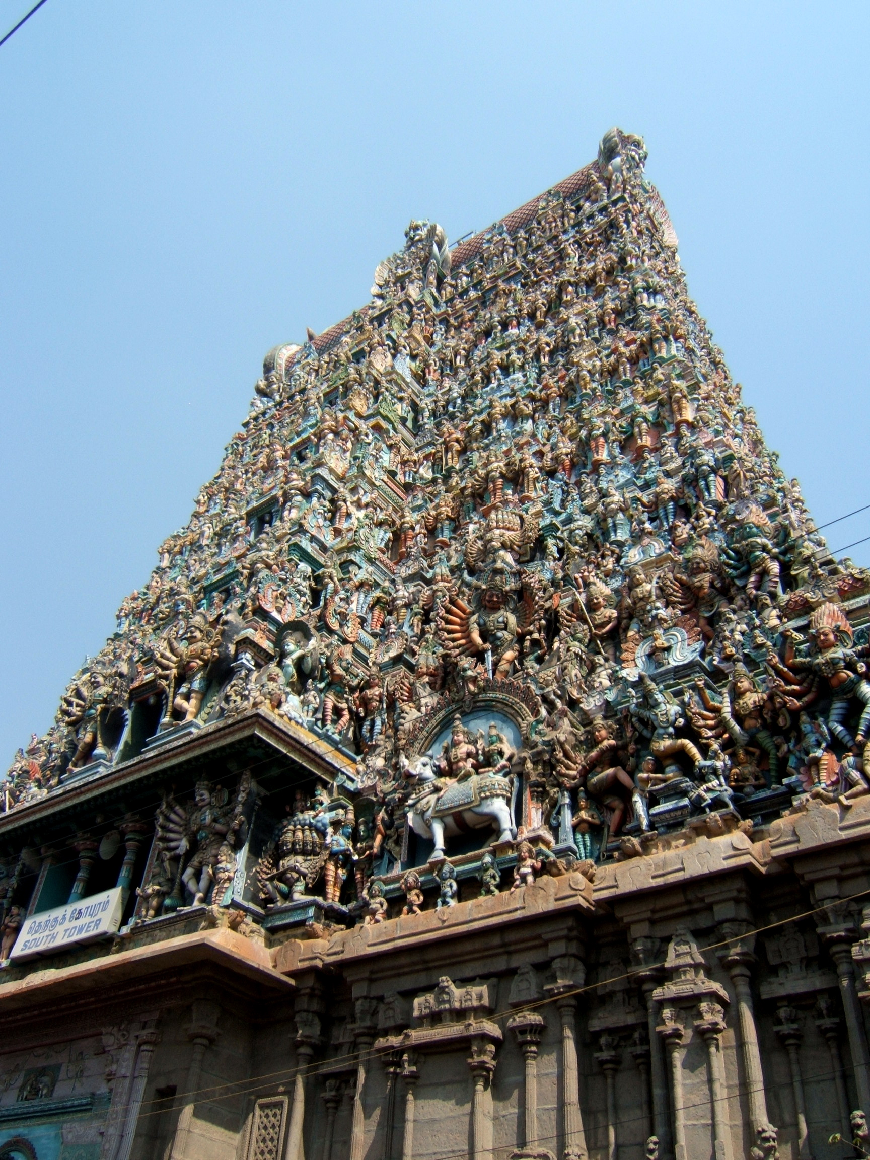 Meenakshi Amman temple South Gopuram Madurai, Tamil Nadu, India